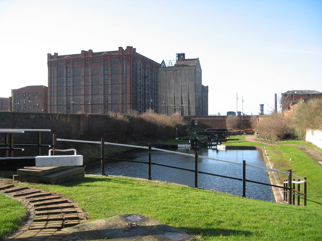 End of Leeds-Liverpool Canal and Tobacco Warehouse Side view of the massive Stanley Dock tobacco warehouse and the White, Tomkins and Courage grain silo at the end of the Leeds-Liverpool Canal. The 14-storey bonded warehouse was designed by Jessie Hartley, it covers 26 acres and allowed storage of 180,000 barrels at any one time. It opened in 1900 and used 27,000,000 bricks in its construction.